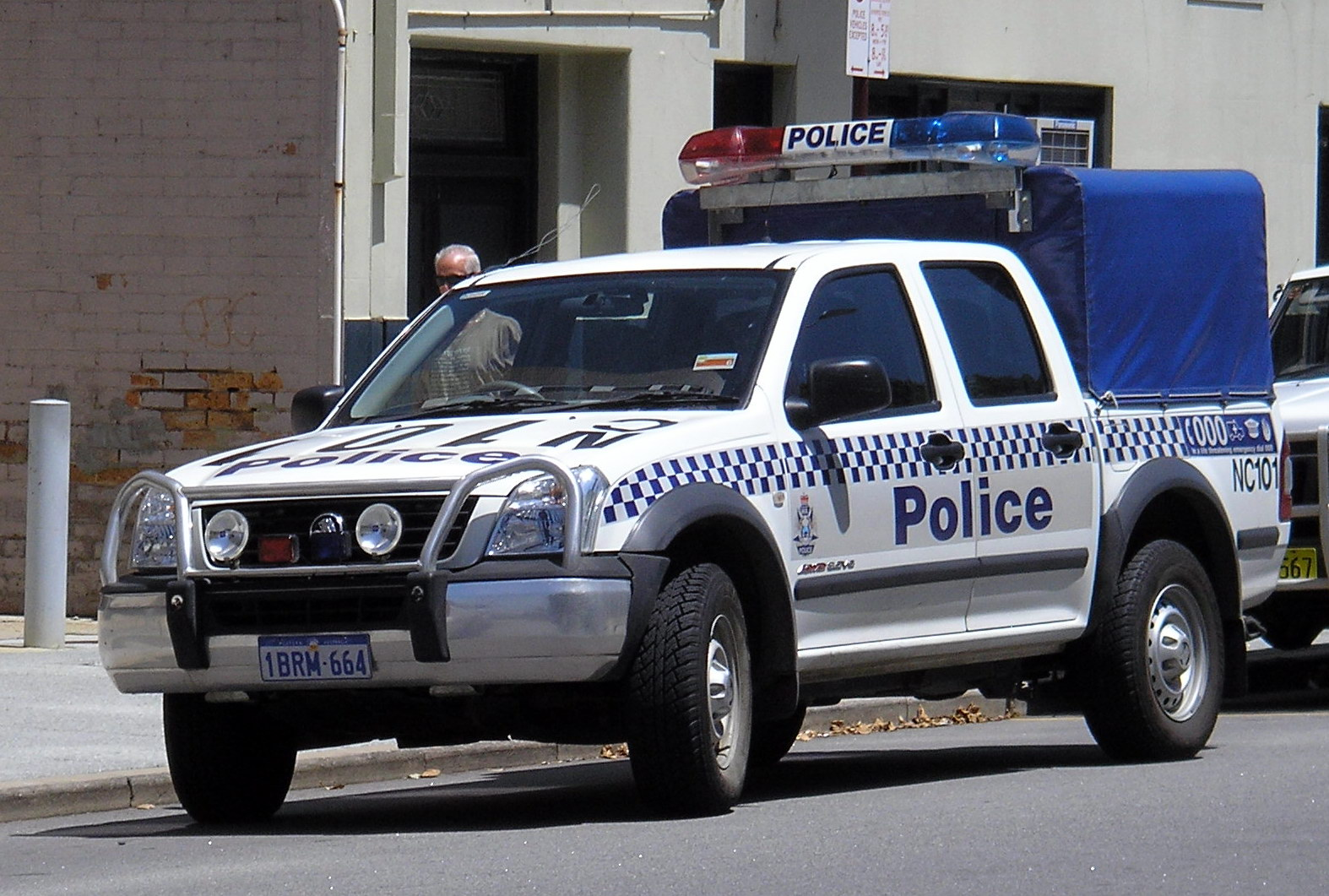 Western Australia Police NC101 General Duties Holden Rodeo, Joondalup District - Clarkson Station.